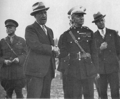 Smedley Butler at his 1931 retirement ceremony. Marine Corps Archives & Special Collections